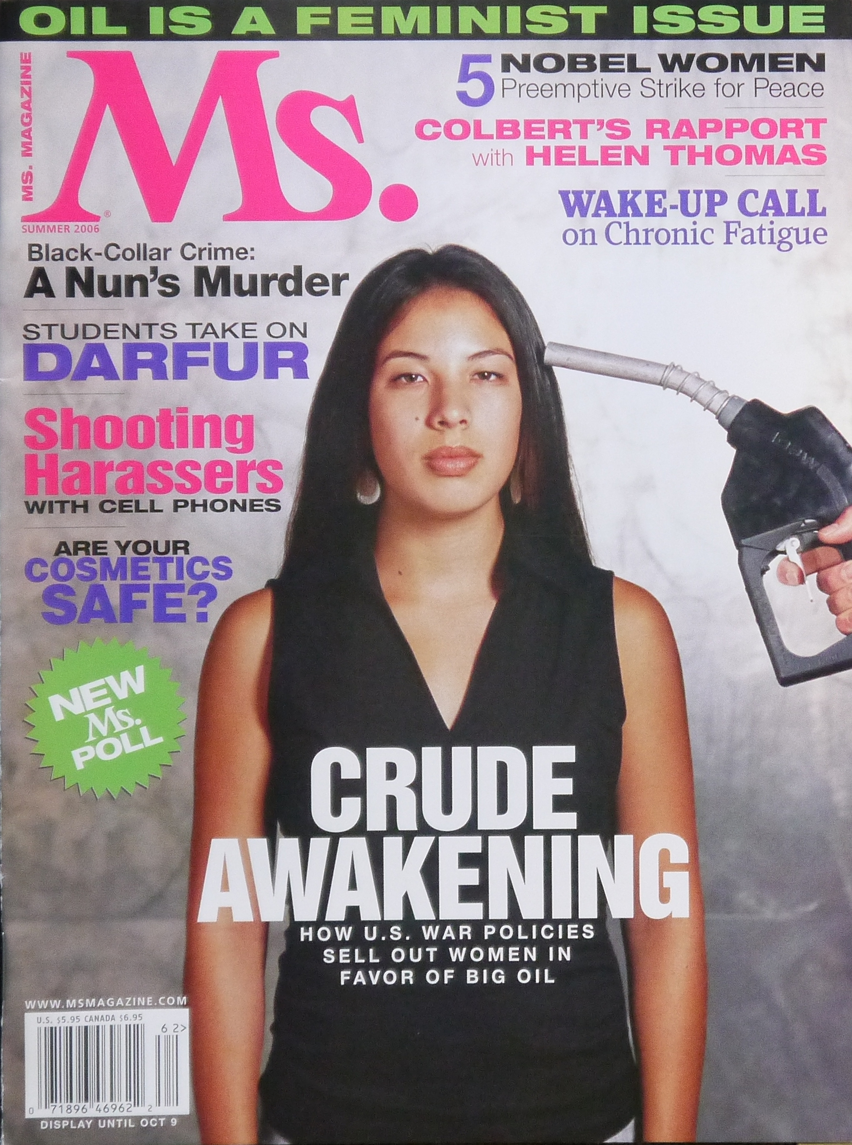 Ms. magazine, Summer 2006